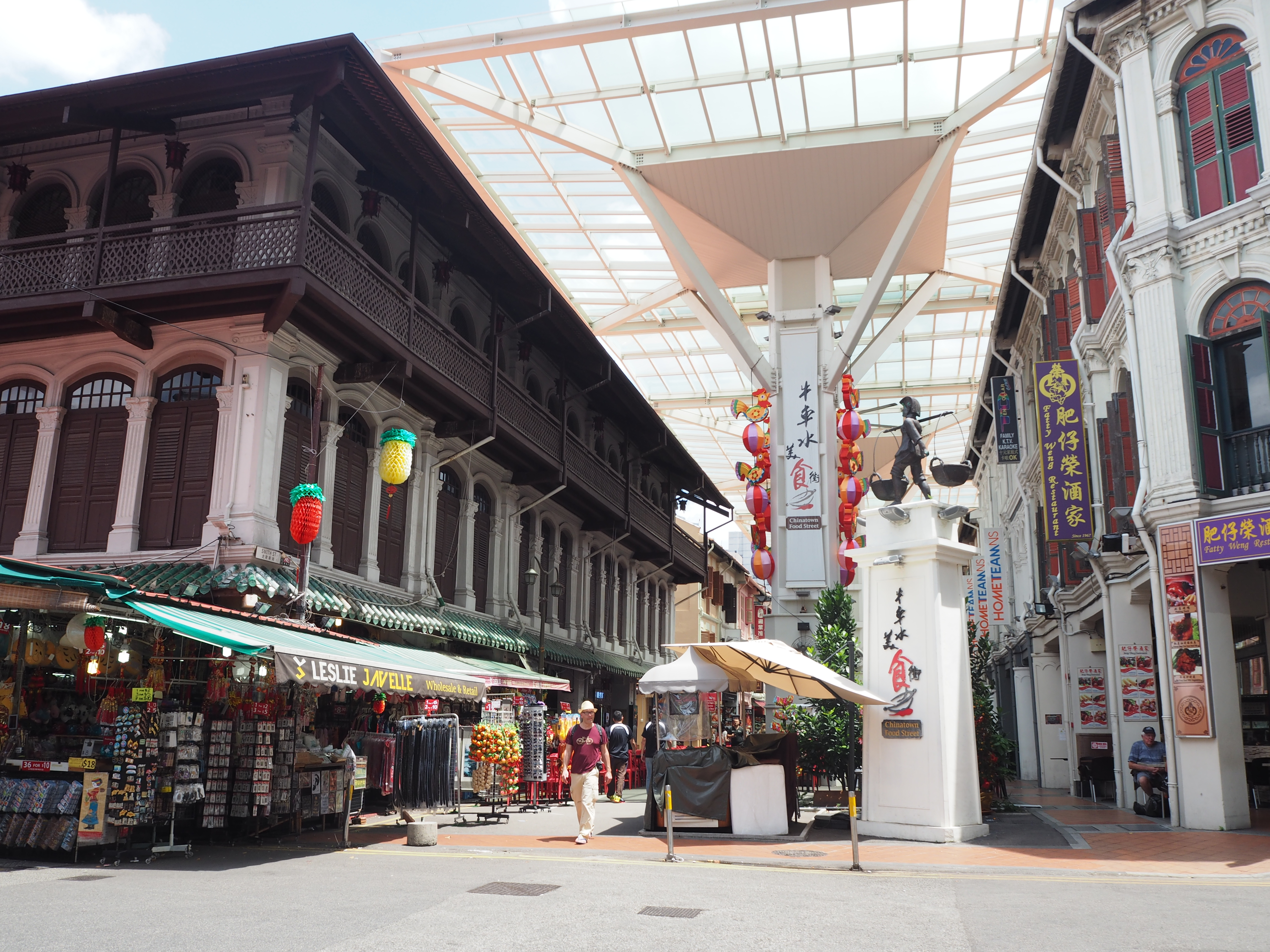 Lai Chun Yuen Opera House